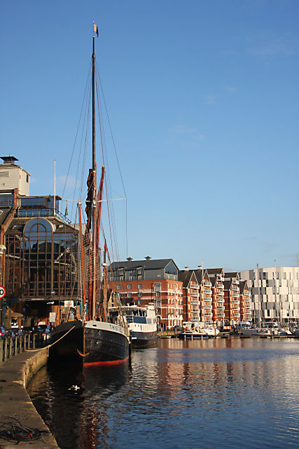 Common Quay, Ipswich Docks This section of quay, which used to form the north bank of the River Orwell prior to the building of the Wet Dock in 1851, is the oldest quay in the port. Old paintings dating from the 1600s show this quay complete with a manually-operated crane.